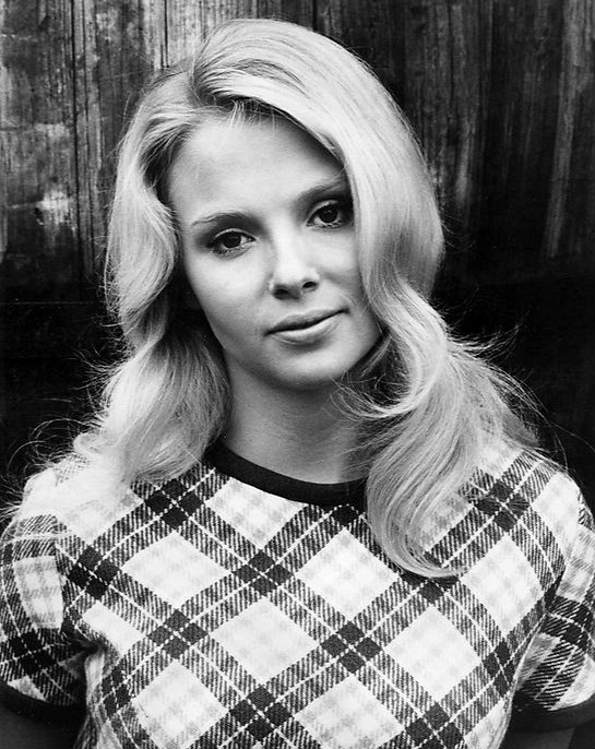 Photo of Joyce Jillson from the television program Peyton Place. Jillson played the character Jill Smith.